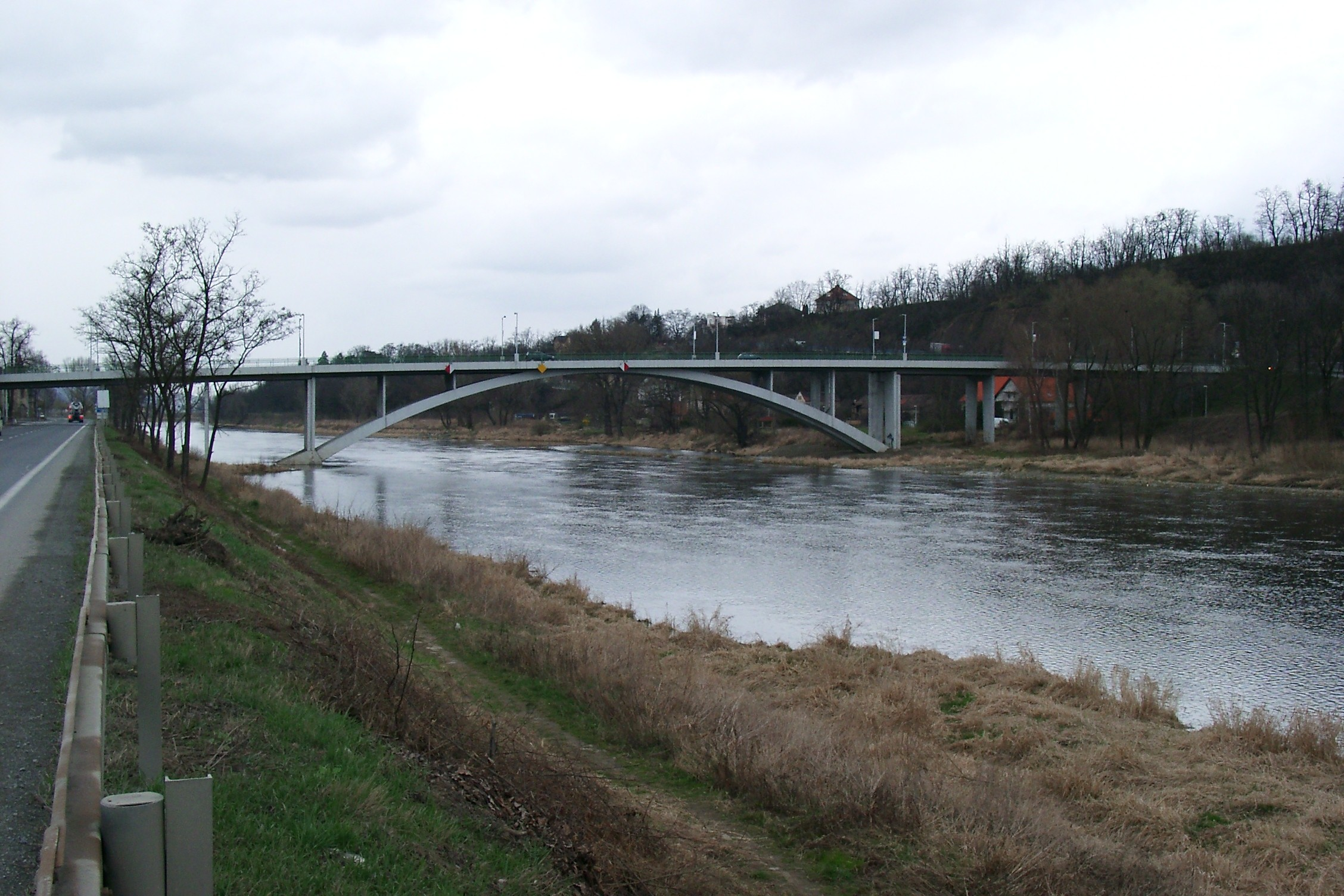 Prague, most Závodu míru at Zbraslav, from the south